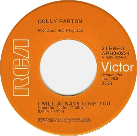 A-side label of "I Will Always Love You" by Dolly Parton; 1974 U.S. vinyl release